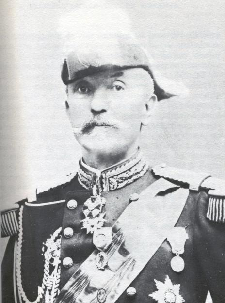 Général de Boisdeffre